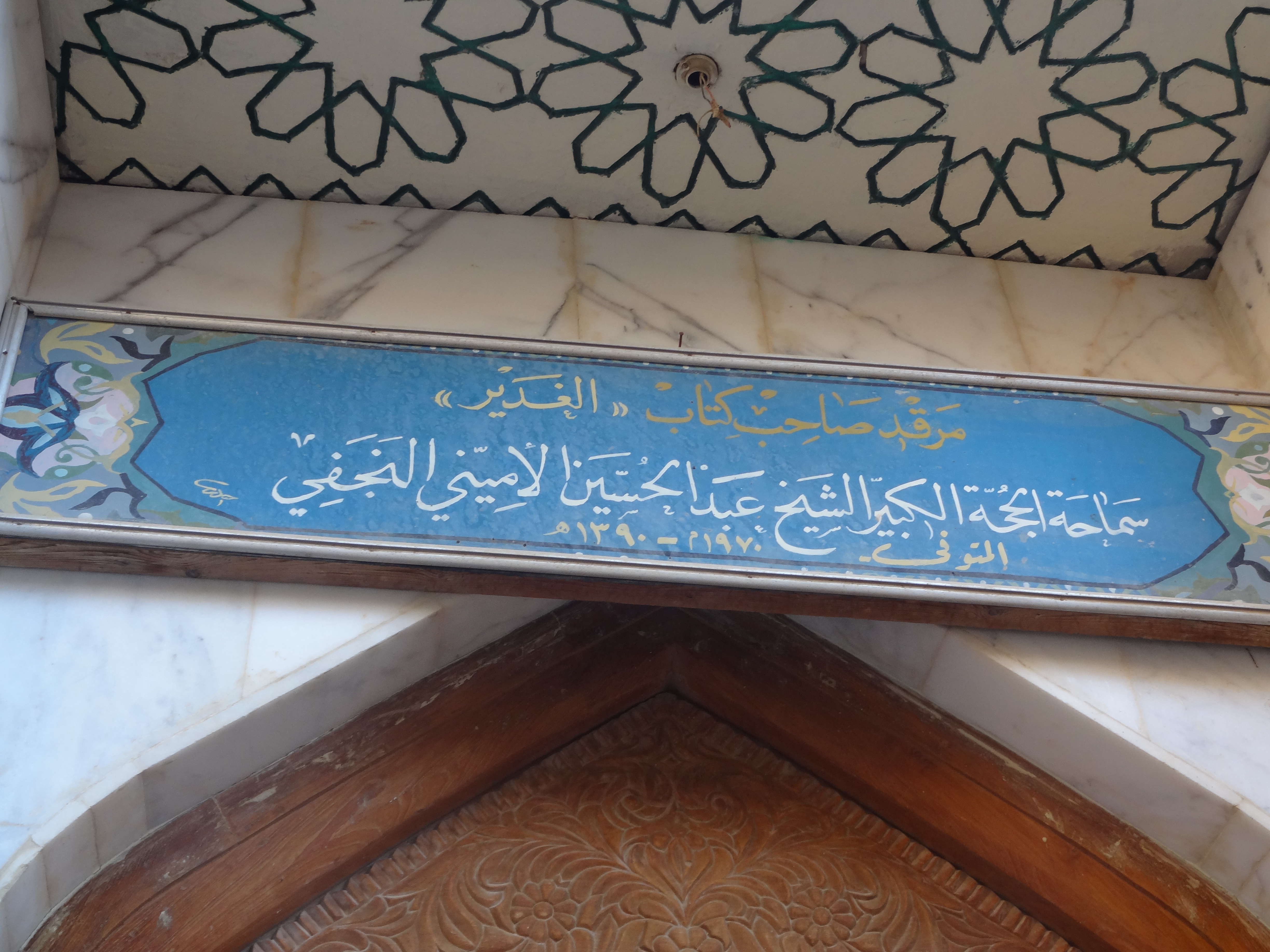 The room where the Shi'ite cleric Abdul-Husain Al-Amini who is well-known as «Allameh Amini» was buried in Najaf, Iraq.